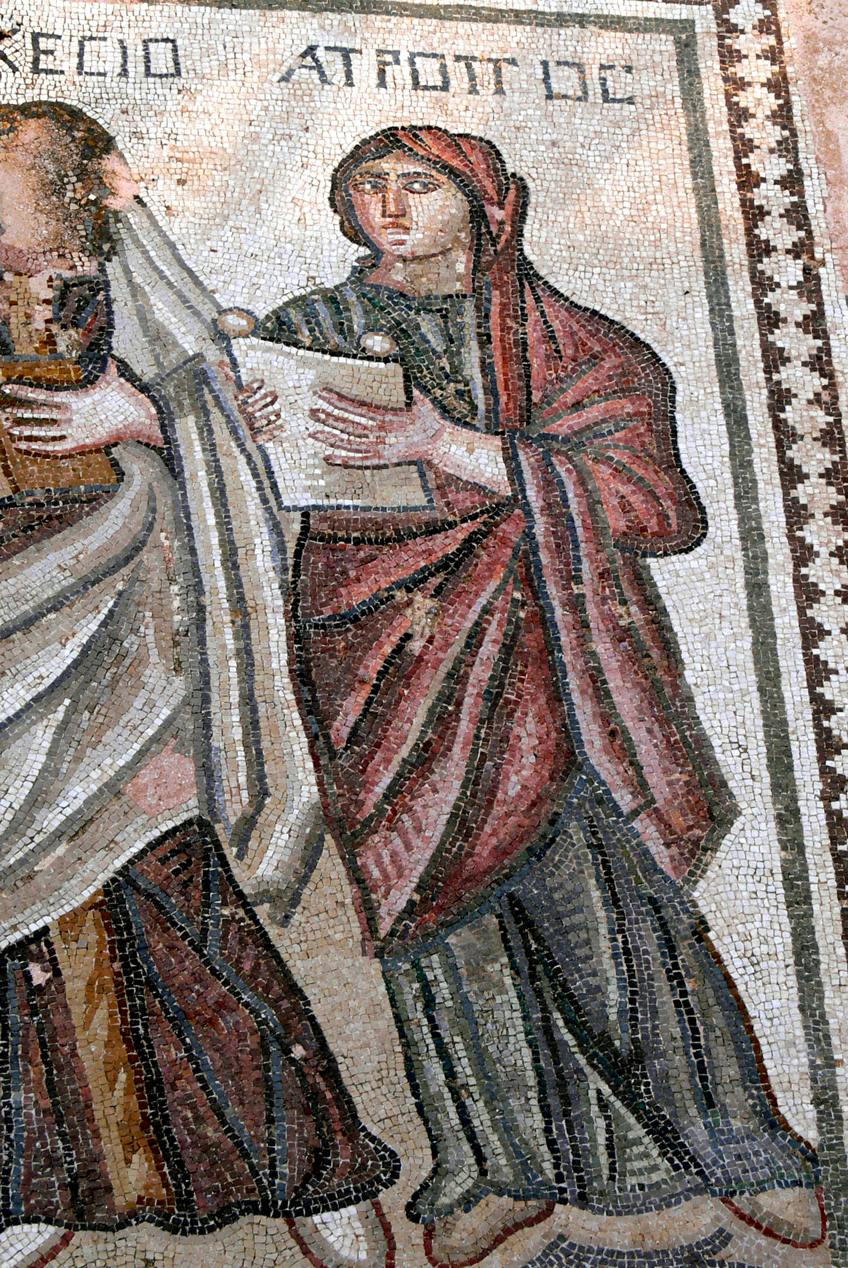 Paphos Archaeological Park. House of Theseus: Mosaic of the bath of Achilles - Atropos ( detail ).